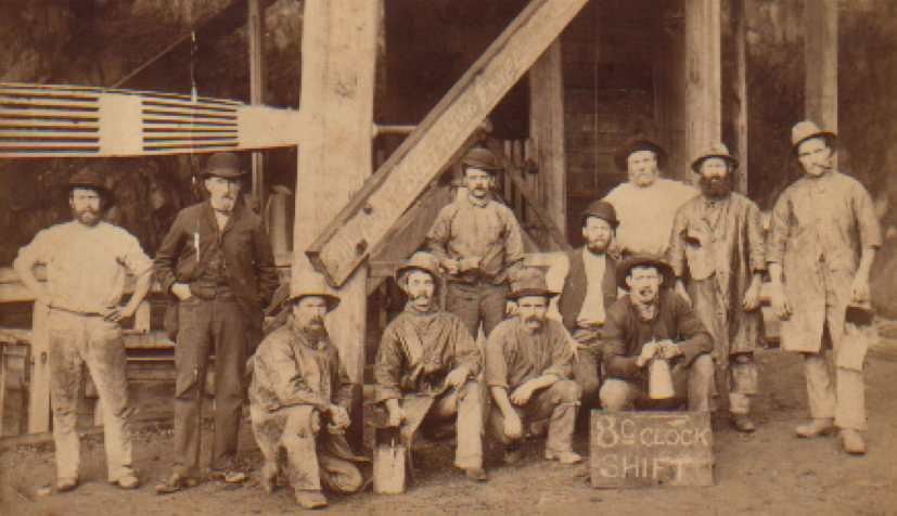 Photograph probably taken by Walhalla photographer, W.H. Lee, c. 1901 of the 8 o'clock shift at the Great South Long Tunnel mine, Walhalla, Victoria, Australia. James Fredeick Porter, shift boss, is the bearded man, squatting fifth from right in bowler hat and vest.